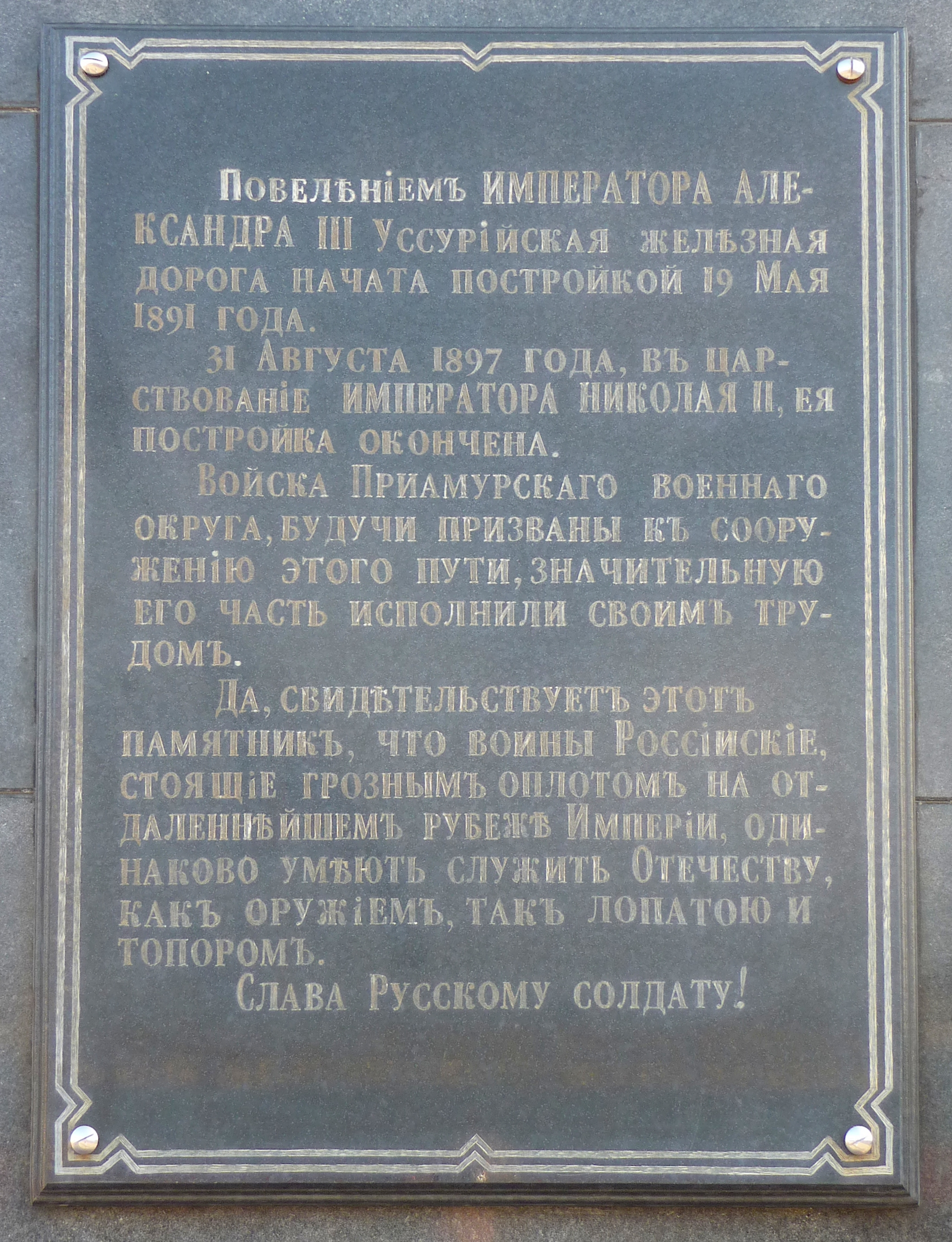 Memorial plaque on a monument in Khabarovsk, commemorating soldiers building the Ussuri Railway (Khabarovsk Krai, Russia).